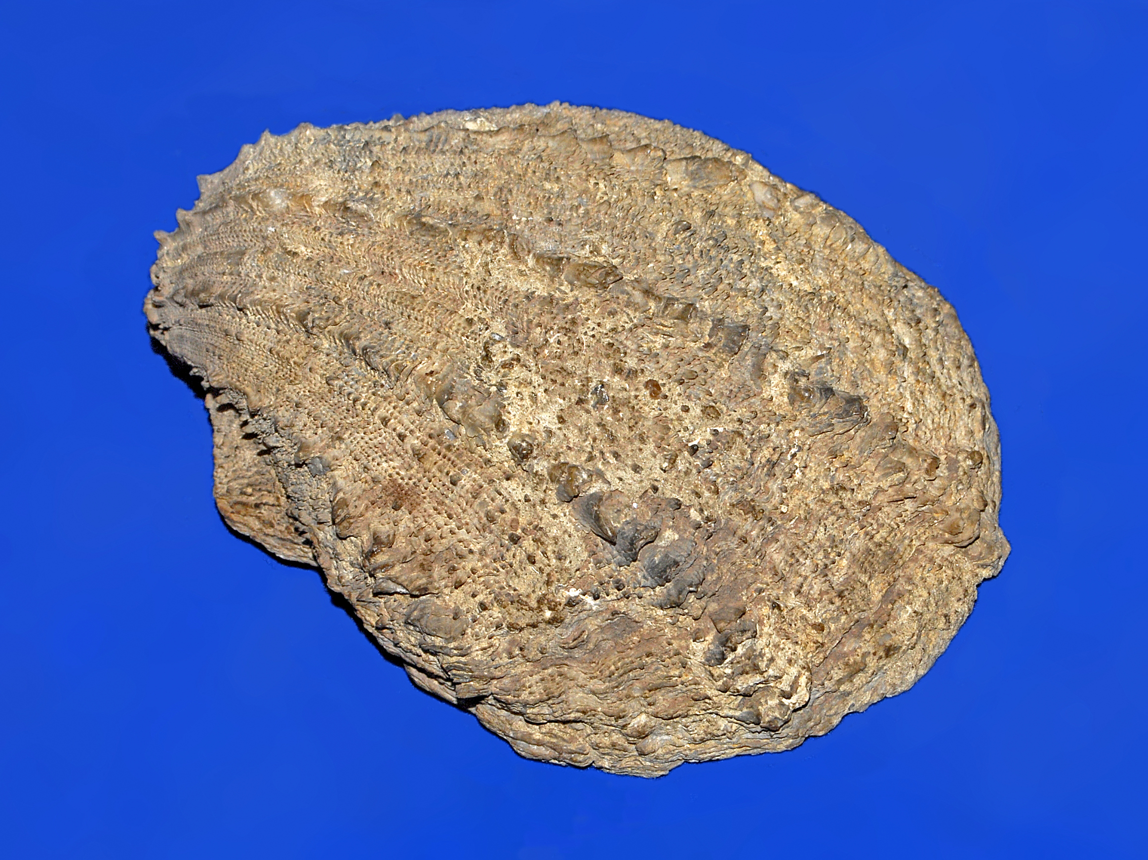 Fossil valve of Spondylus crassicosta from the Pliocene of Italy, on display at the Museo Paleontologico, Asti